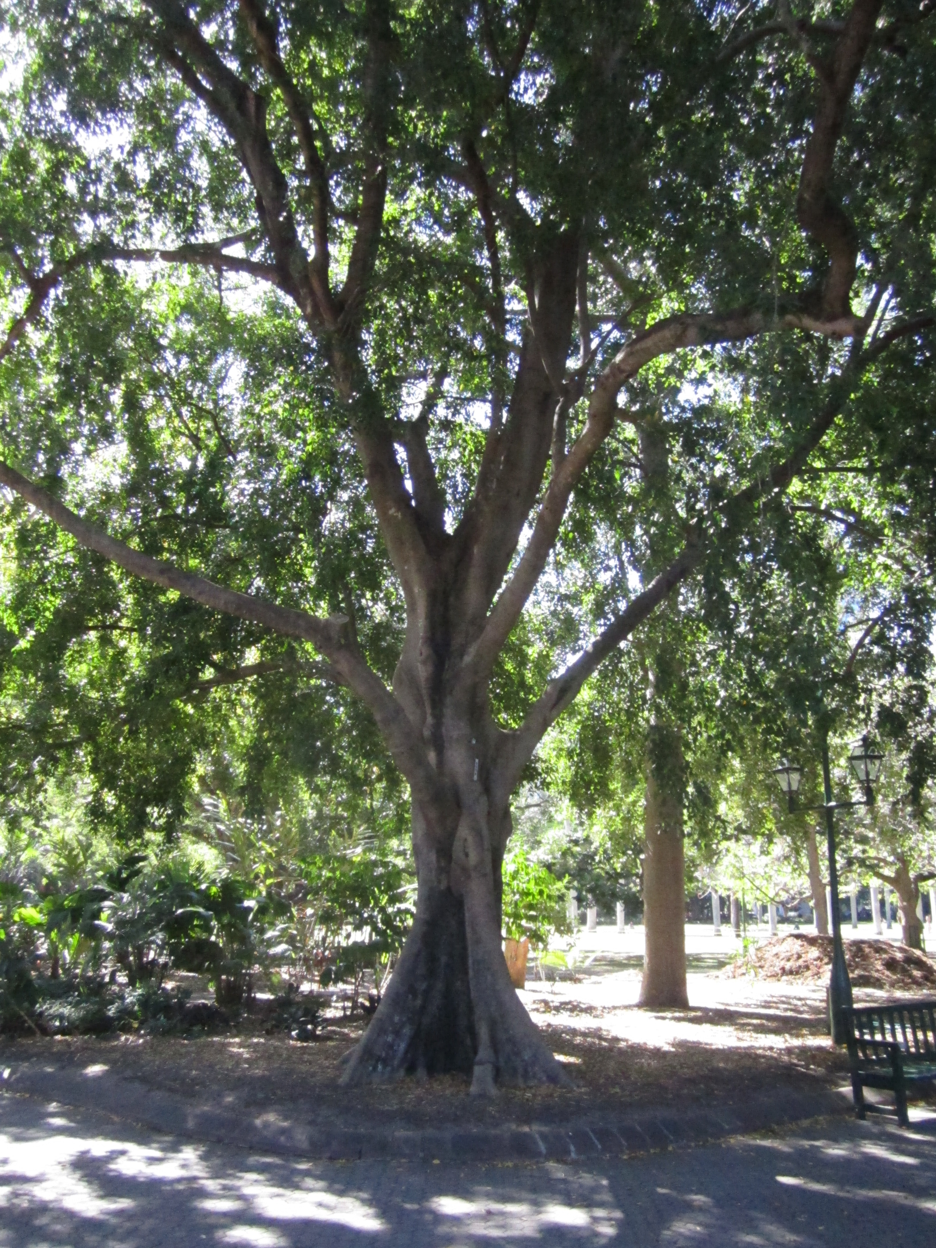 The making of this file was supported by Wikimedia Australia. To see other files made with WM-AU support, please see the category Supported by Wikimedia Australia. Ficus benjamina (weeping fig) tree growing in the Brisbane City Botanic Gardens. This particular specimen was planted in 1874, making it 138 years old at the time this photograph was taken.